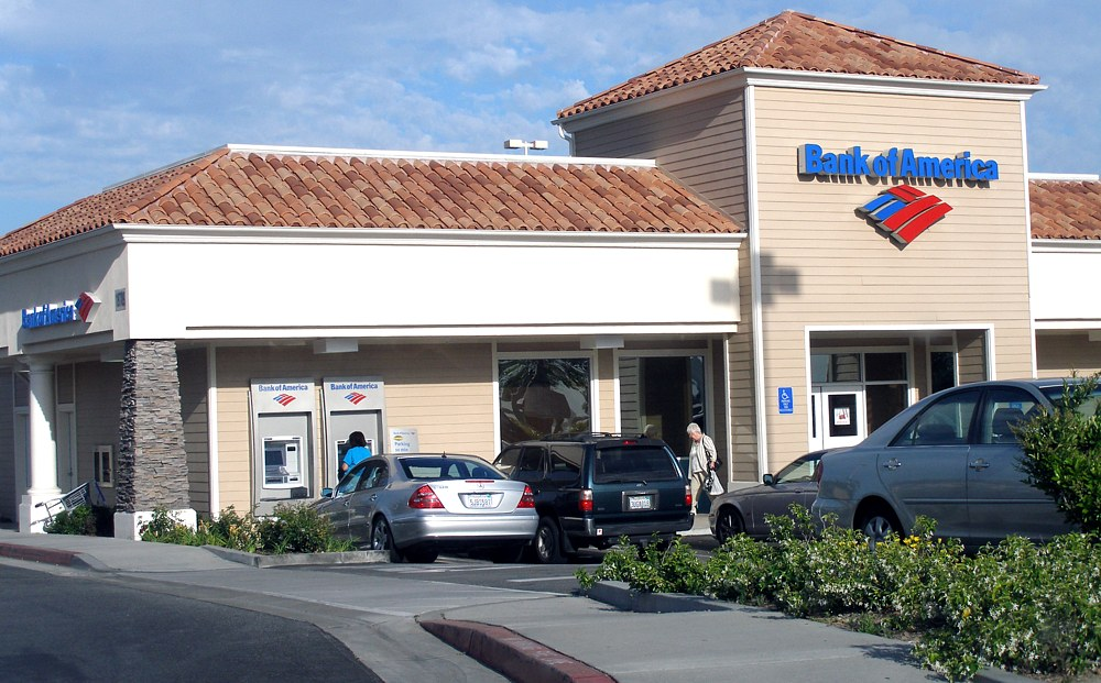 A Bank of America Banking Center at Porter Ranch Town Center, a shopping center in Porter Ranch.